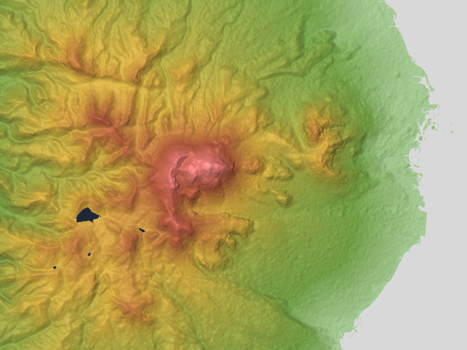 Massif of Unzen Volacno in Nagasaki Prefecture, Kyushu, Japan.